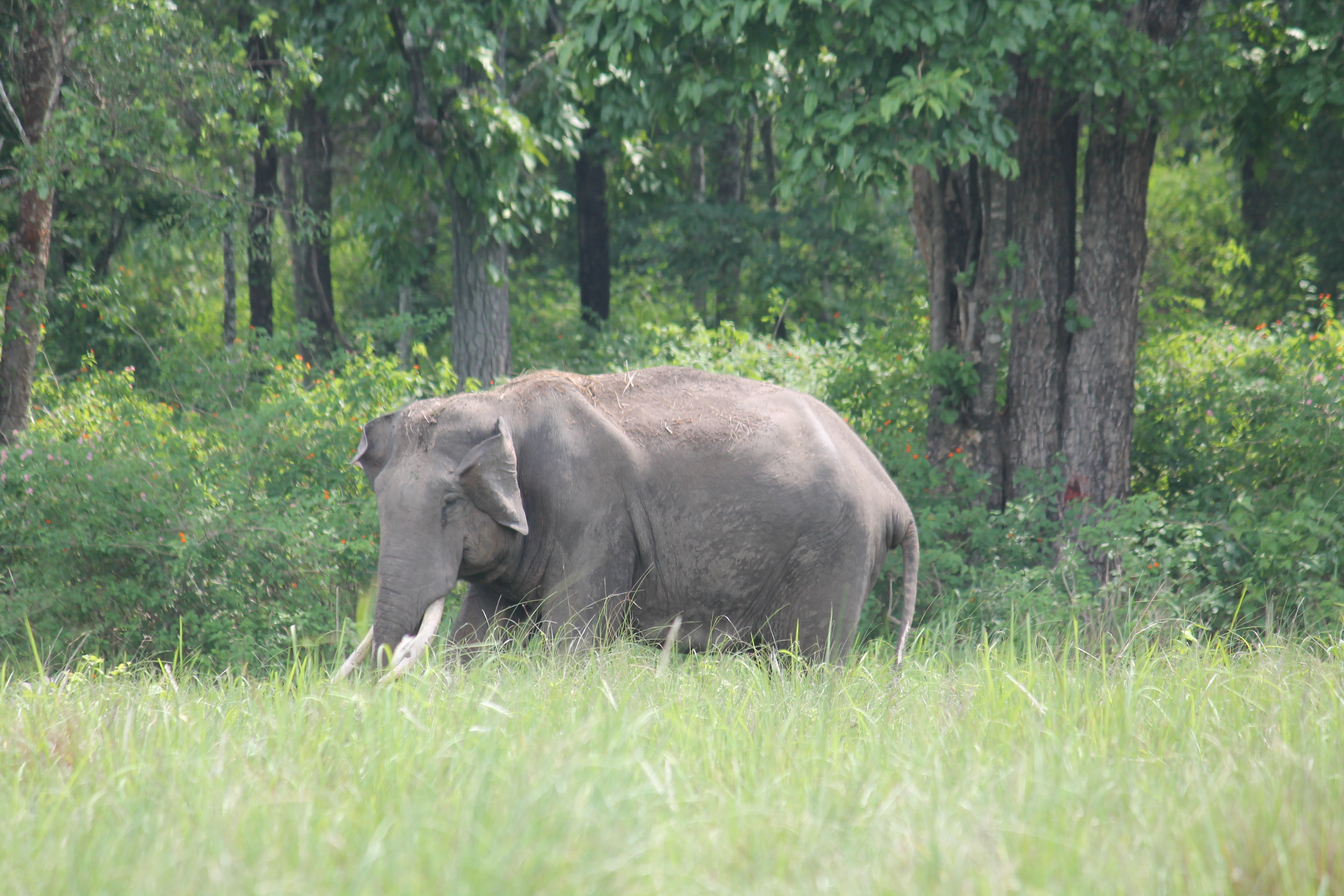 This is a wild elephant found near Naikkatty in wayanad